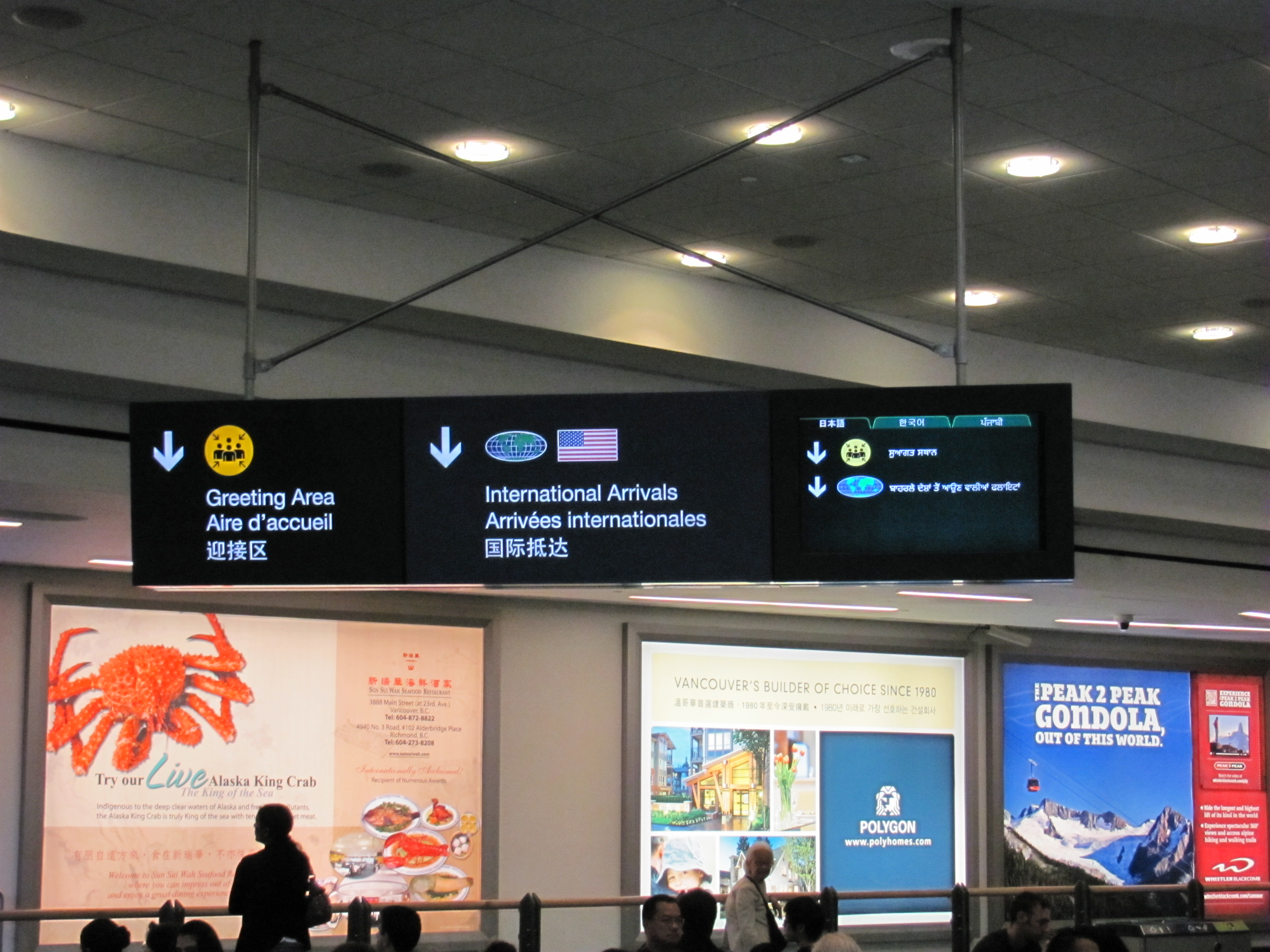 Multilingual signage at Vancouver International Airport, international arrivals area. Text in English, French, and Chinese is a permanent feature of this sign, while the right panel of the sign is a video screen that rotates through additional languages. (The language shown here is Punjabi. Other language tabs show Japanese and Korean.)